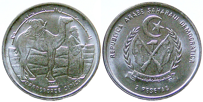 2 Sahara Pesetas